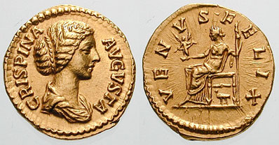 Crispina, wife of Commodus. AV Aureus (7.26 gm). CRISPINA AVGVSTA, draped bust right VENVS F-ELIX, Venus seated left, holding Nike, who holds an open wreath in both hands, in extended right hand, sceptre in left; dove tanding left under seat.